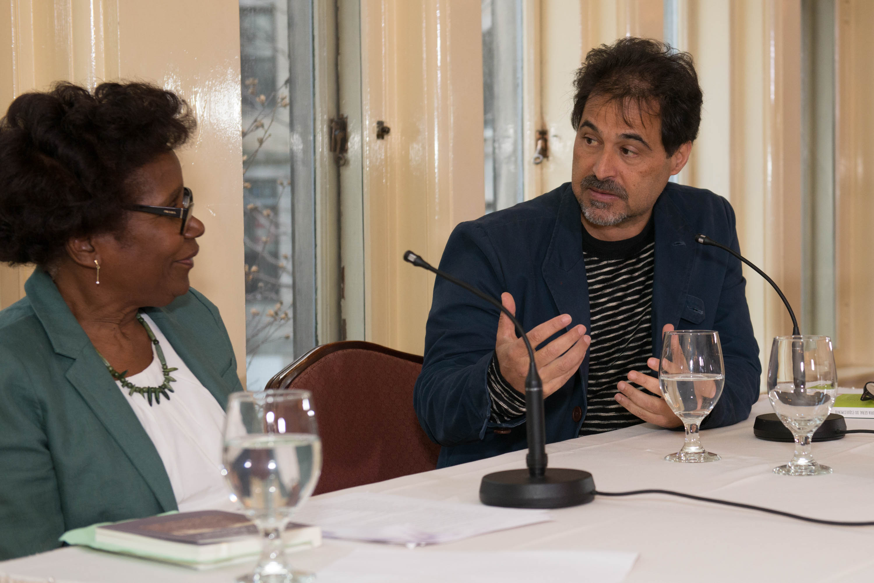 Lusophone Voices: A Reading & Conversation with José Eduardo Agualusa. At the Boston University Castle. Tuesday, April 12, 2016.